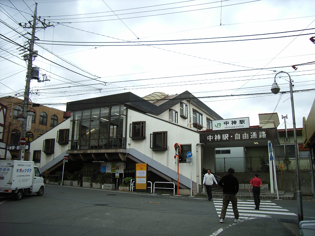 South exit of Nakagami sta. (Tokyo) -- JR-EAST Ome Line